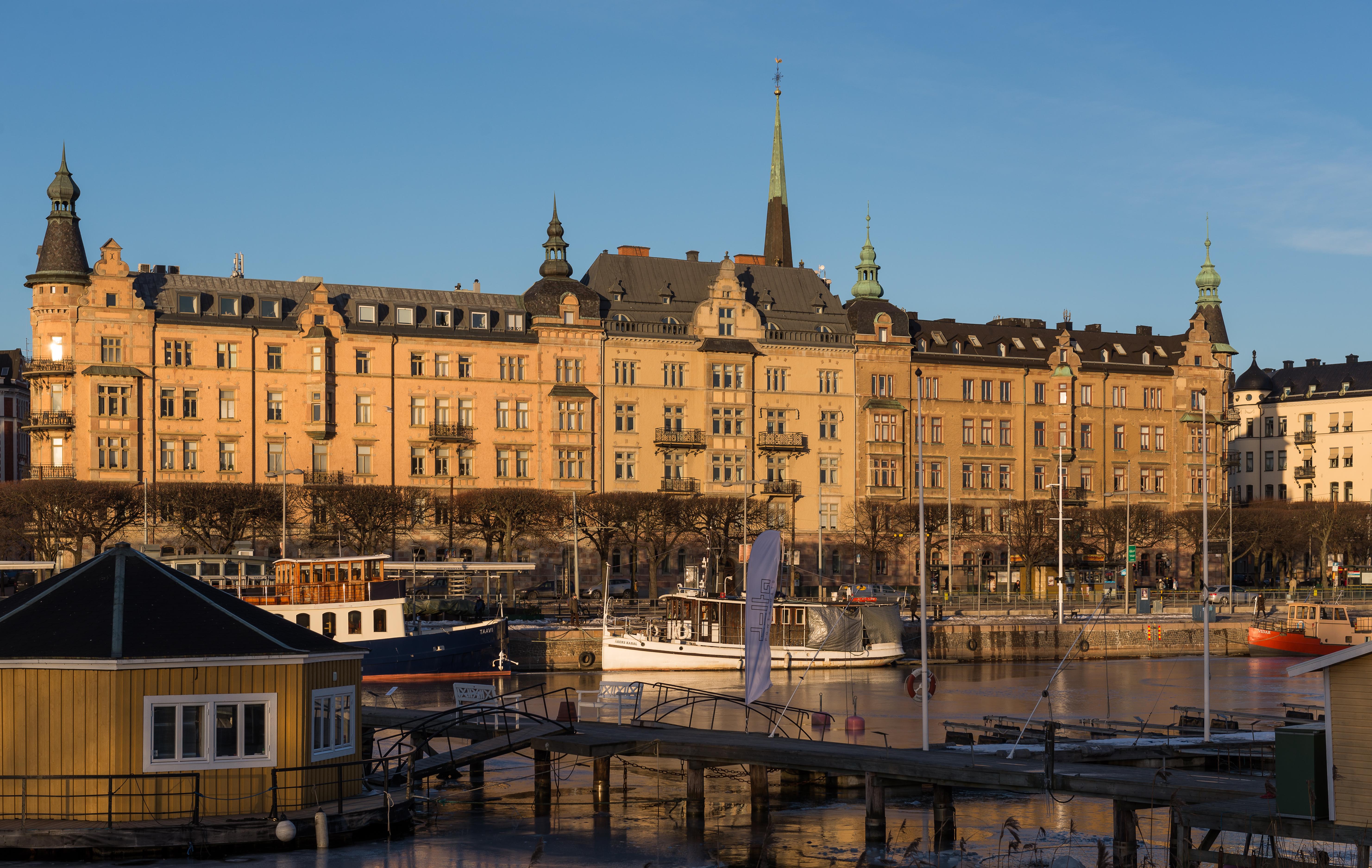 Strandvägen 43-47, Stockholm. Strandvägen 43. 1891-1896. Architects: J. O. Nordström Strandvägen 45. Built 1893. Architects: Ullrich & Hallquisth Strandvägen 47. 1893-1894. Architects: J. O. Nordström